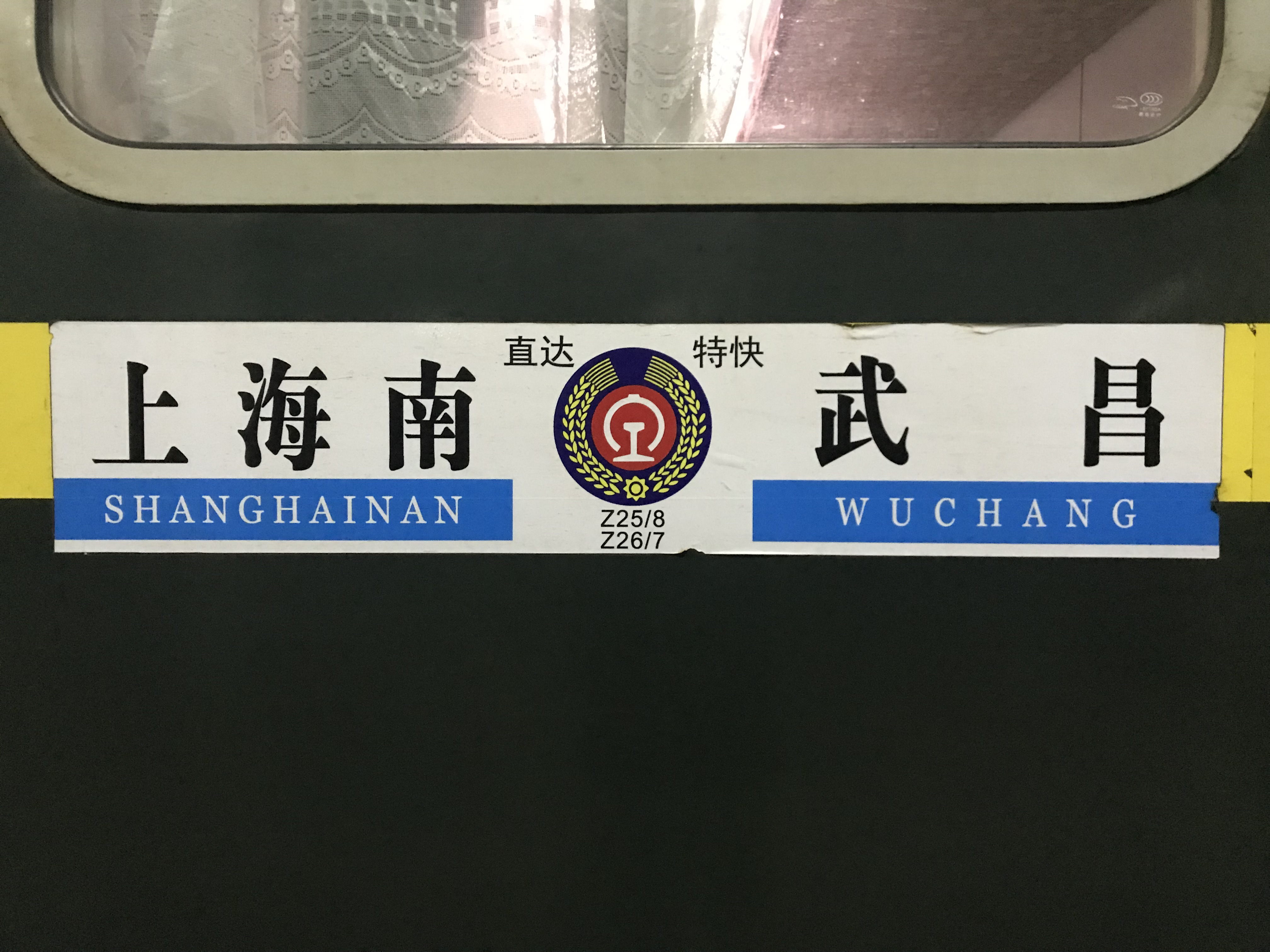 Finally the collection of infoboards of "3Z trains to Eastern China" is complete